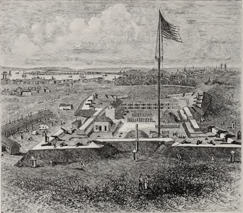 A lithograph of Fort Marshall, Baltimore, Maryland, 1863